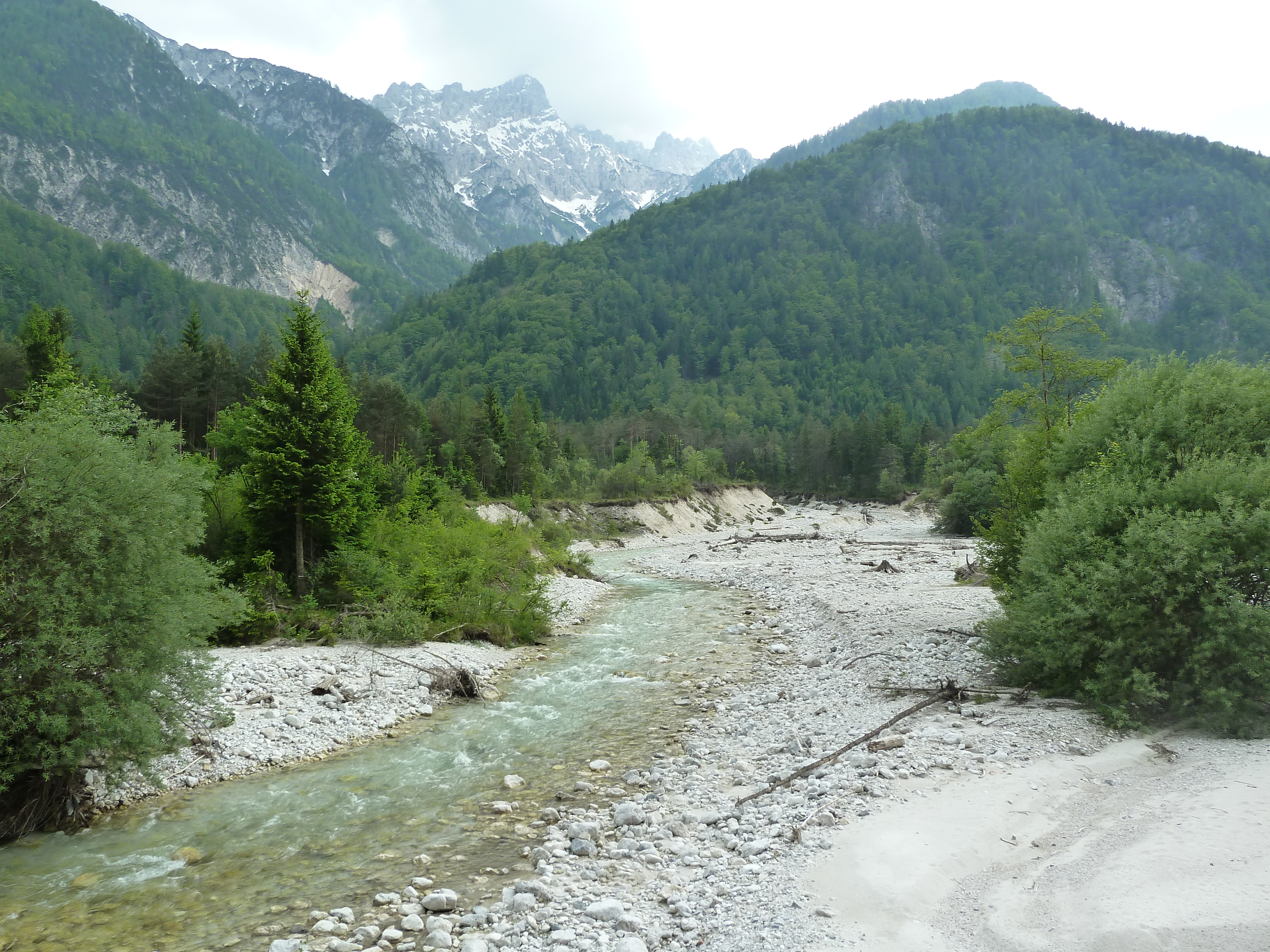 Sava Dolinka below the confluence with Beli potok